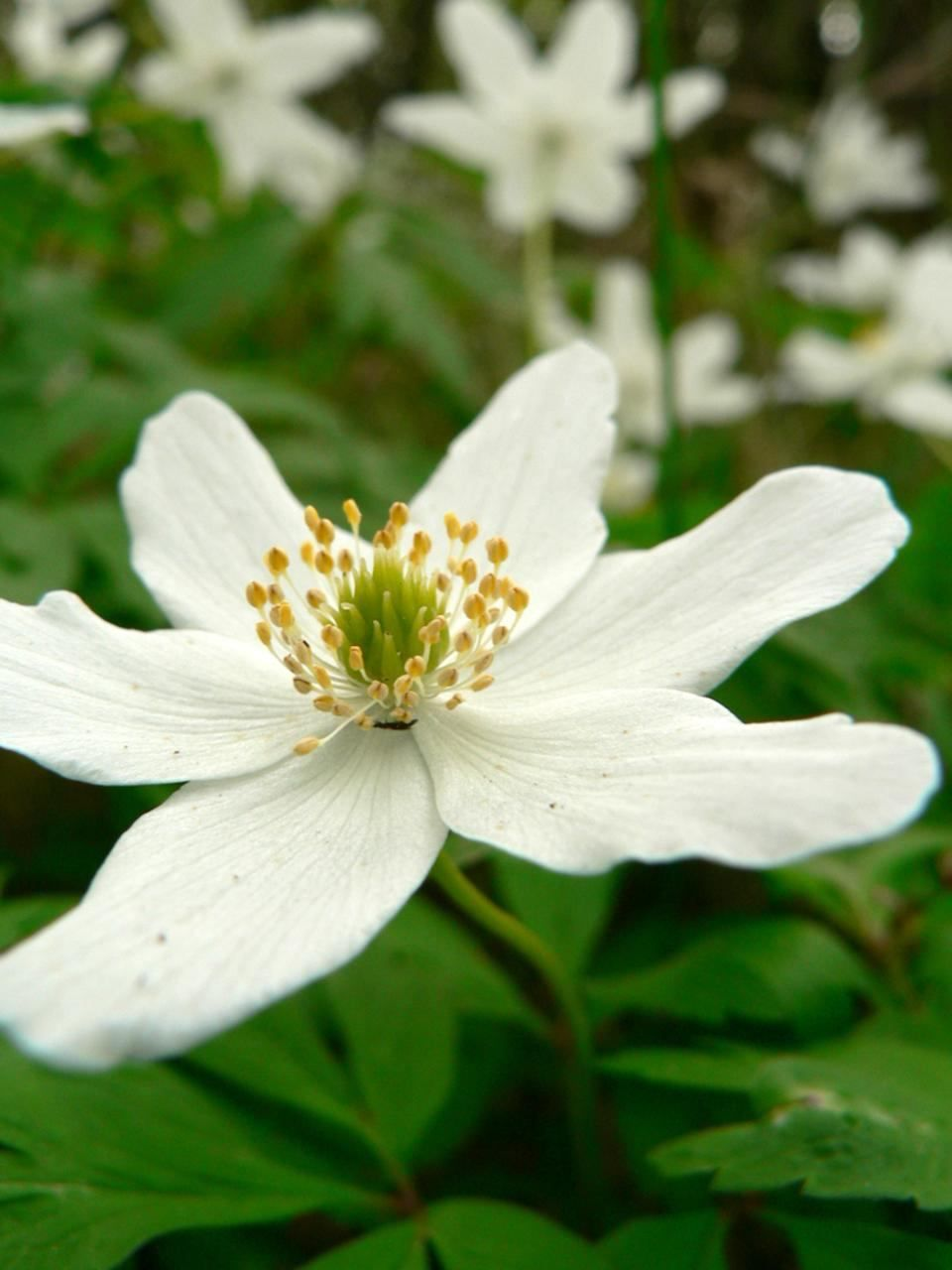 Image title: Wood anemone anemone nemorosa Image from Public domain images website